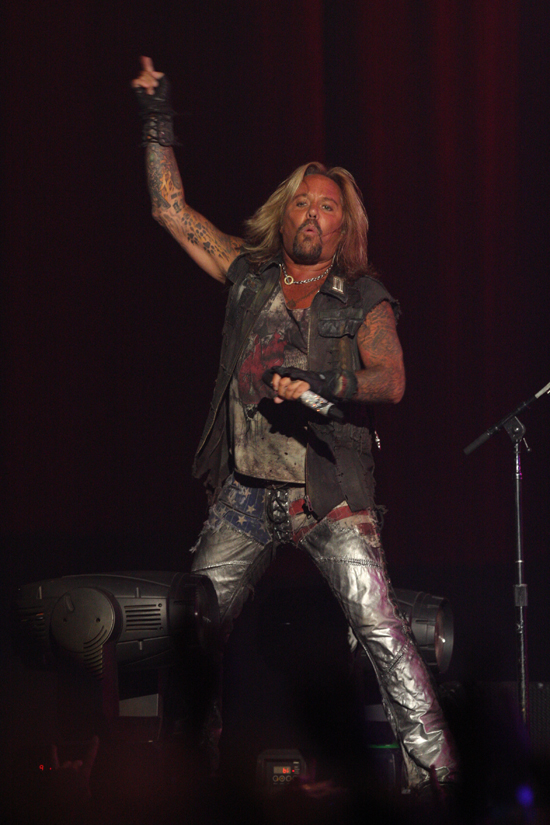 Motley Crue Sydney Entertainment Centre